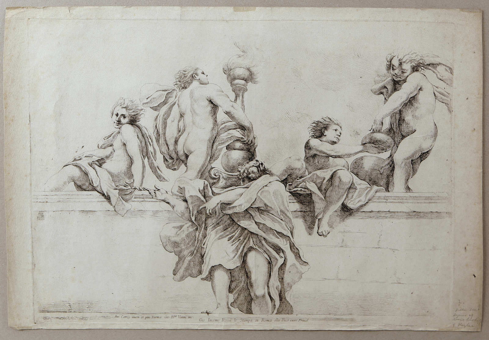 One of the series of 15 etchings/engravings by Giovanni Battista Vanni; based on Correggio's fresco in the Duomo di Parma (Parma Cathedral, Italy).